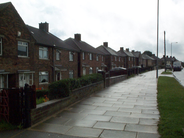 Houses in Reevy Road West. Typical street scene on this main road on the Buttershaw housing estate.